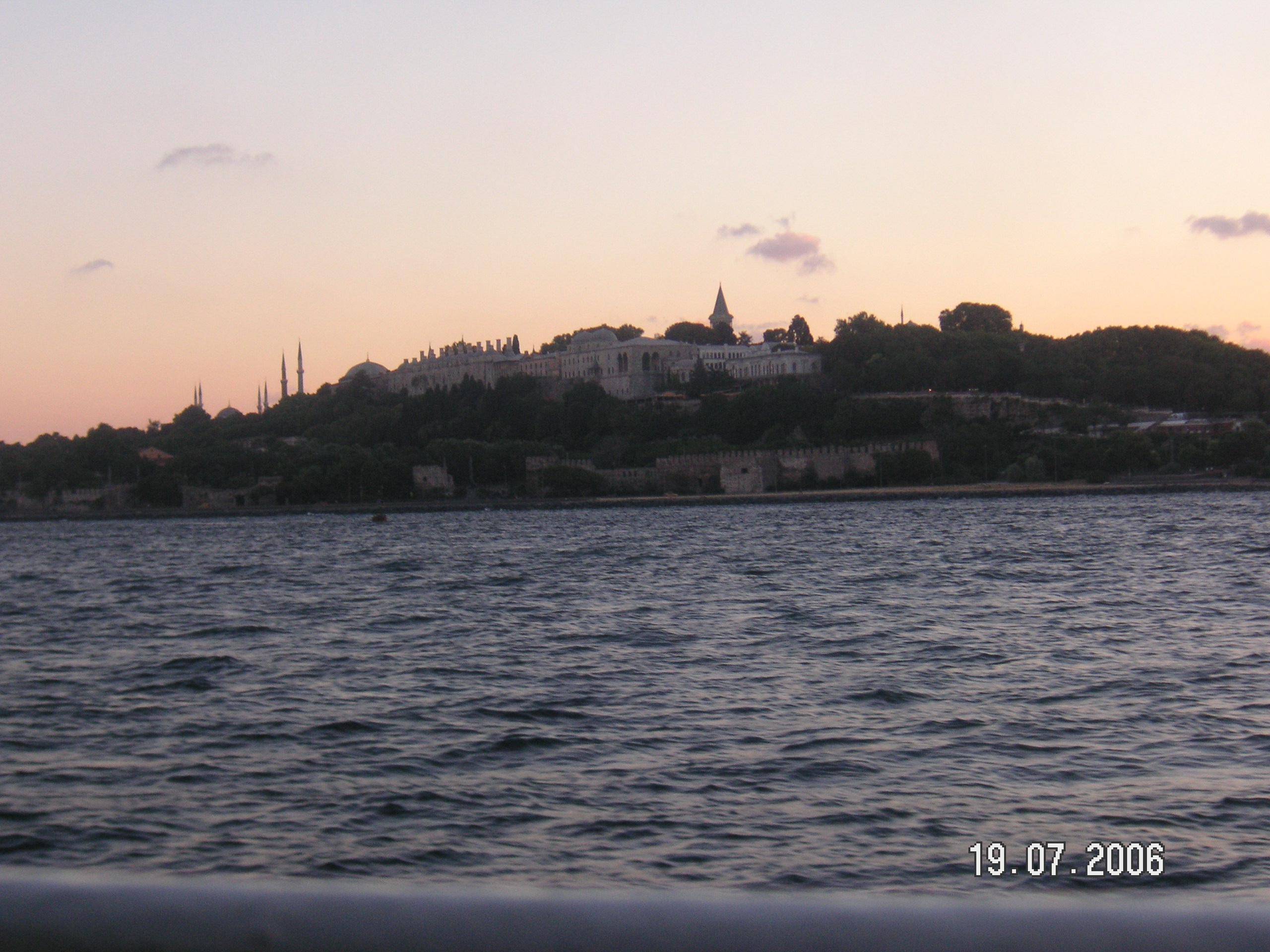 Topkapi Saray as seen from Bosphorus